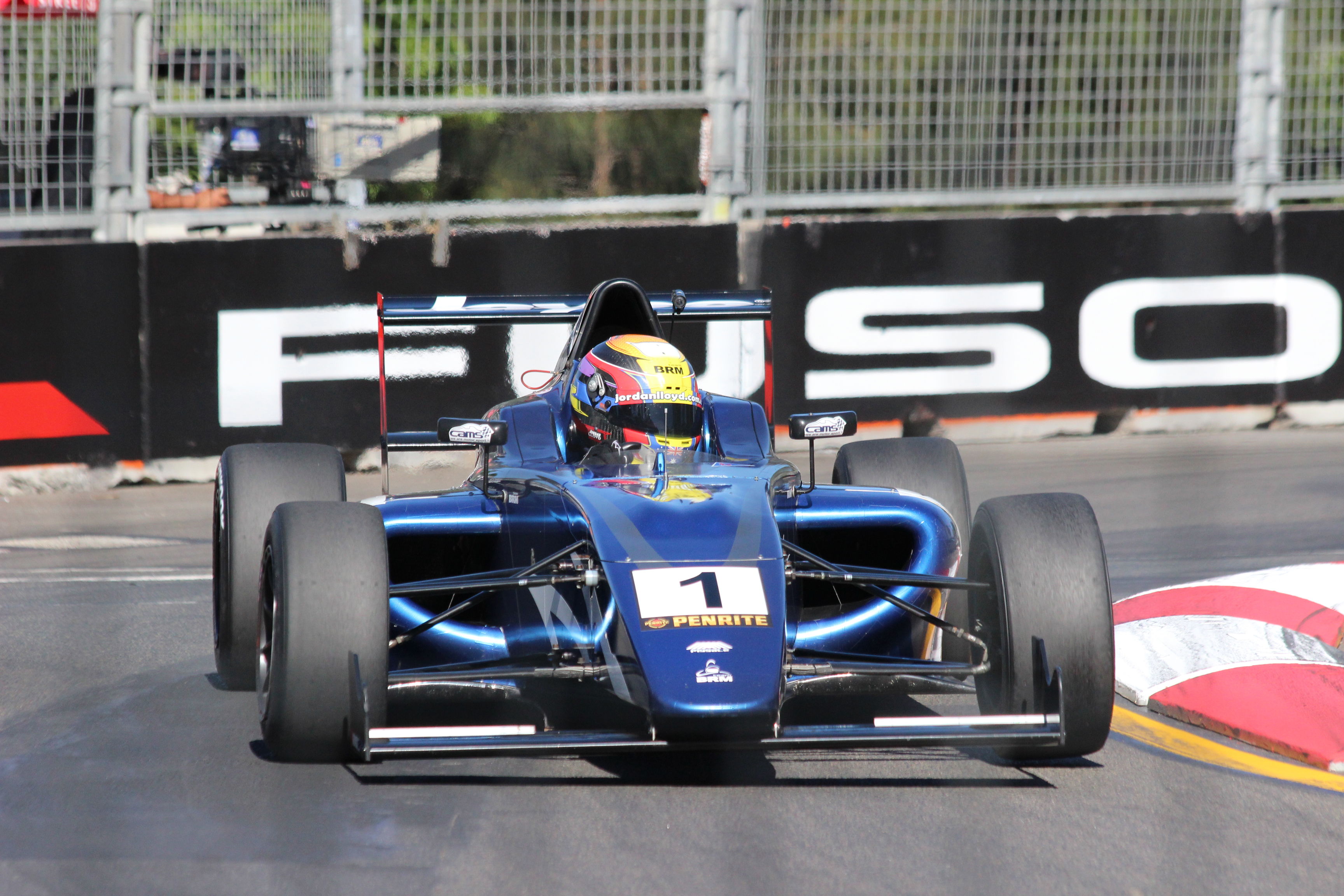 Jordan Lloyd during the Australian Formula 4 Championship qualifying session at the 2015 Coates Hire Sydney 500